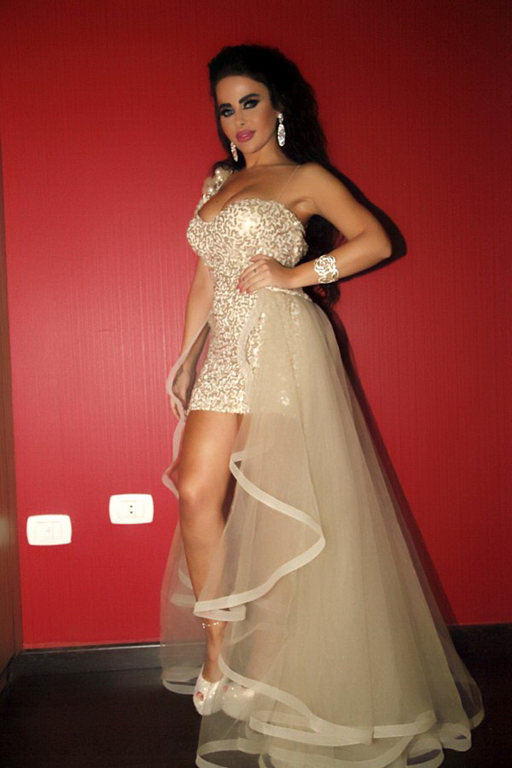 Layal Abboud - Plaza Palace Ceremony - Beiurut - July 2015 - Lebanon